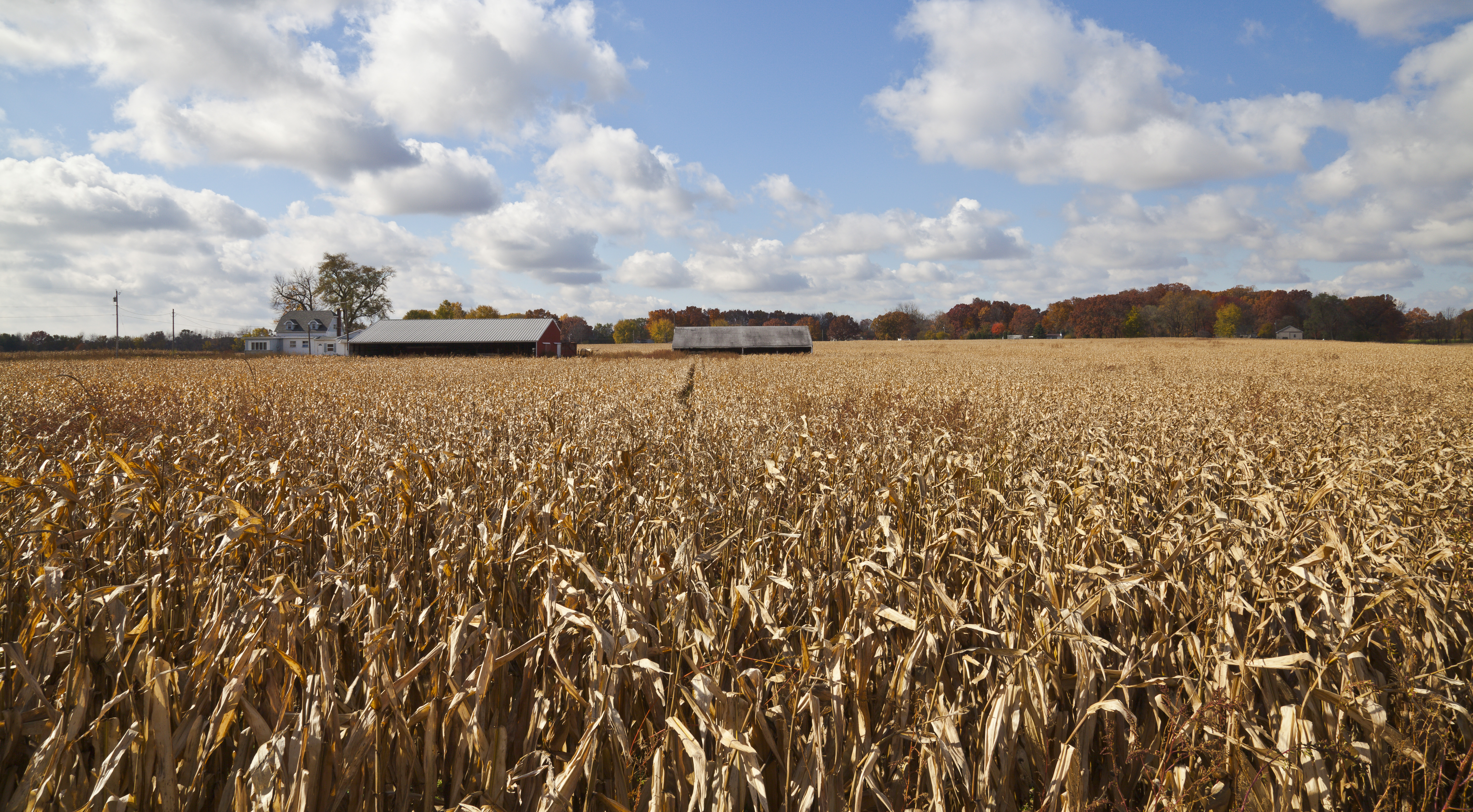 Cornfield, Walker, Indiana, USA